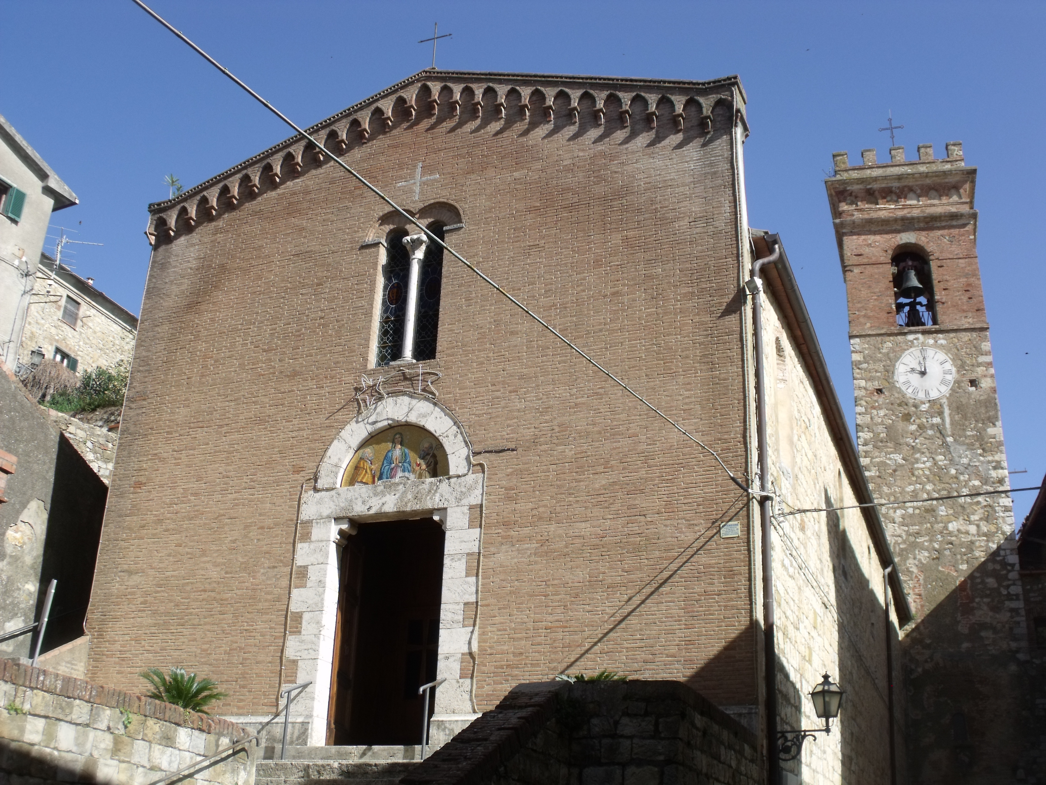 Church of Sant’Egidio in Giuncarico, hamlet of Gavorrano, Maremma, Province of Grosseto, Tuscany, Italy